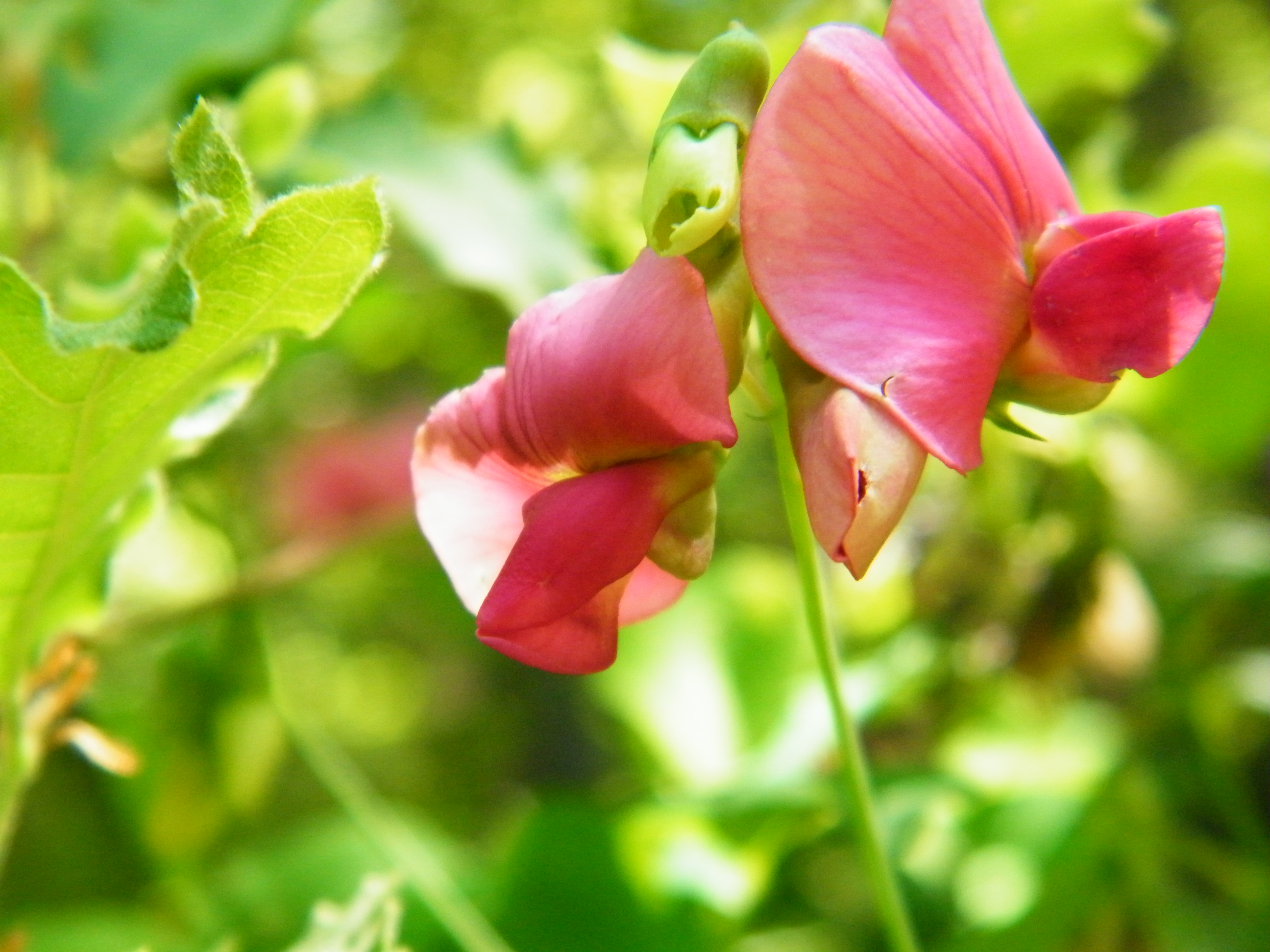 Lathyrus rotundifolius in Laspi